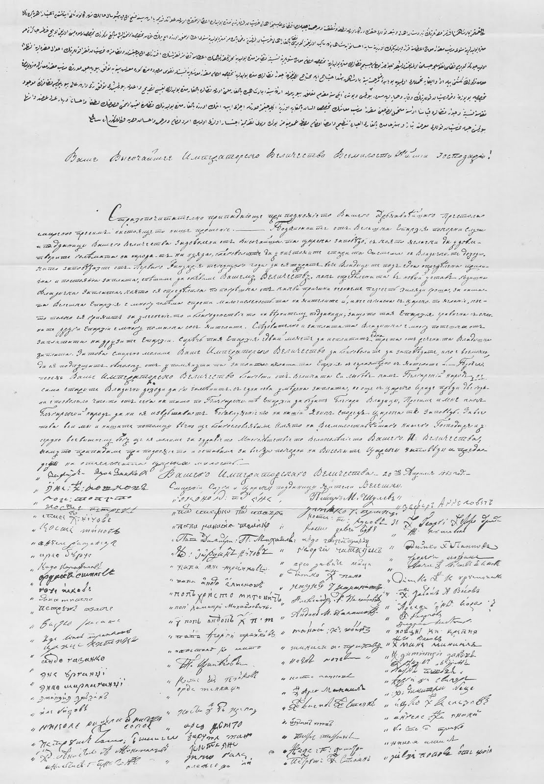 Plea for bulgarian mitropolite